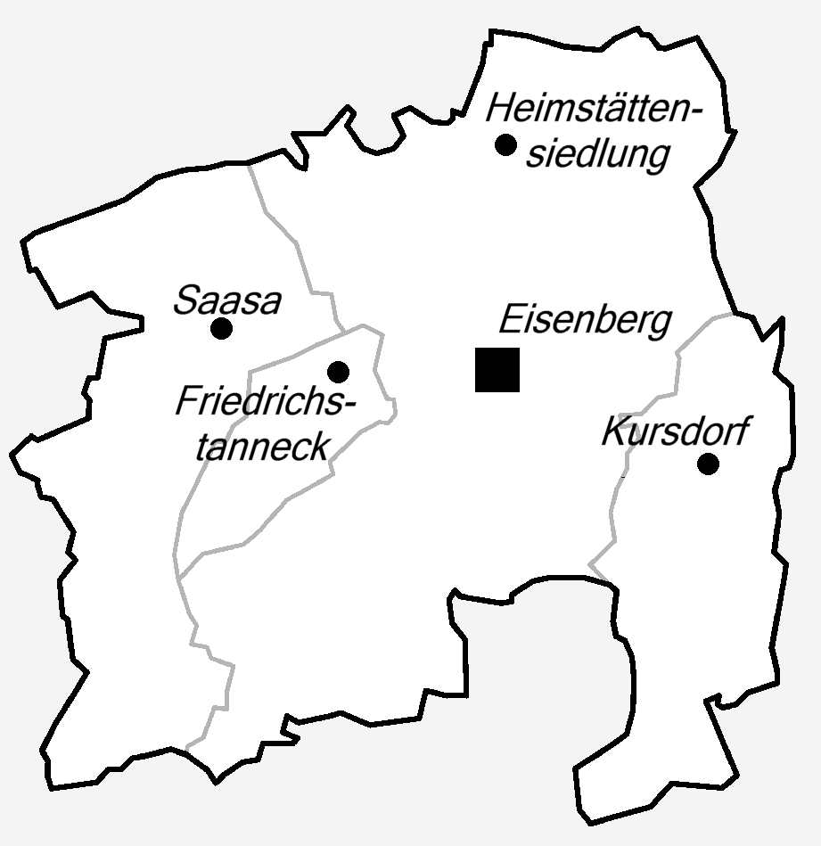 District-Map of Eisenberg in Thuringia.